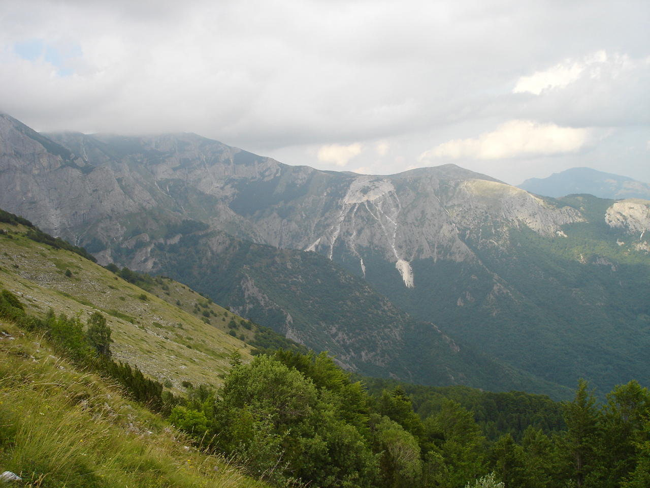 Jakupica mountain, Macedonia